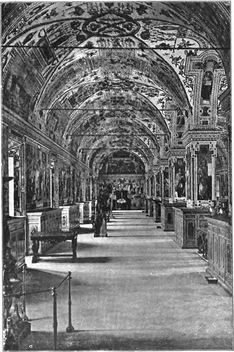 ?From Stereograph. Copyright. By Underwood & Underwood, New York. Main Hall of Library in the Vatican. Showing Decorations in Sculpture and Fresco.? Illustration from the "Vatican" article in The Americana: A Universal Reference Library Comprising the Arts and Sciences, Literature, History, Biography, Geography, Commerce, etc., of the World, Vol. 21 (Triennial Act–Vivianite), edited by Frederick Converse Beach (New York: Scientific American Compiling Department, 1912). This image is in the public domain.